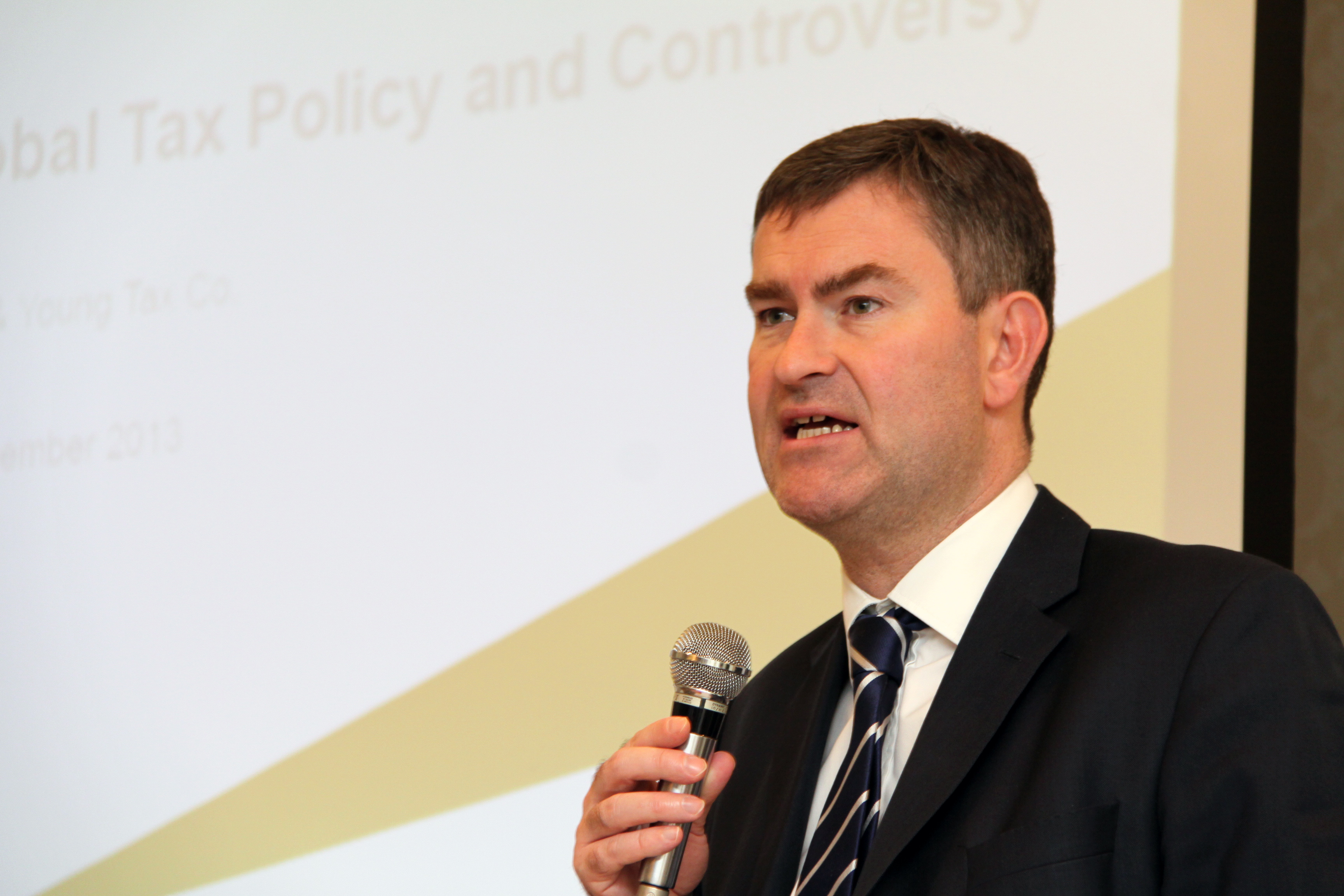 David Gauke talking on UK Government's perspective on global tax policy, given the UK's role as Presidency of the G8, at the Japan Tax Association, Japan on 14 November 2013.